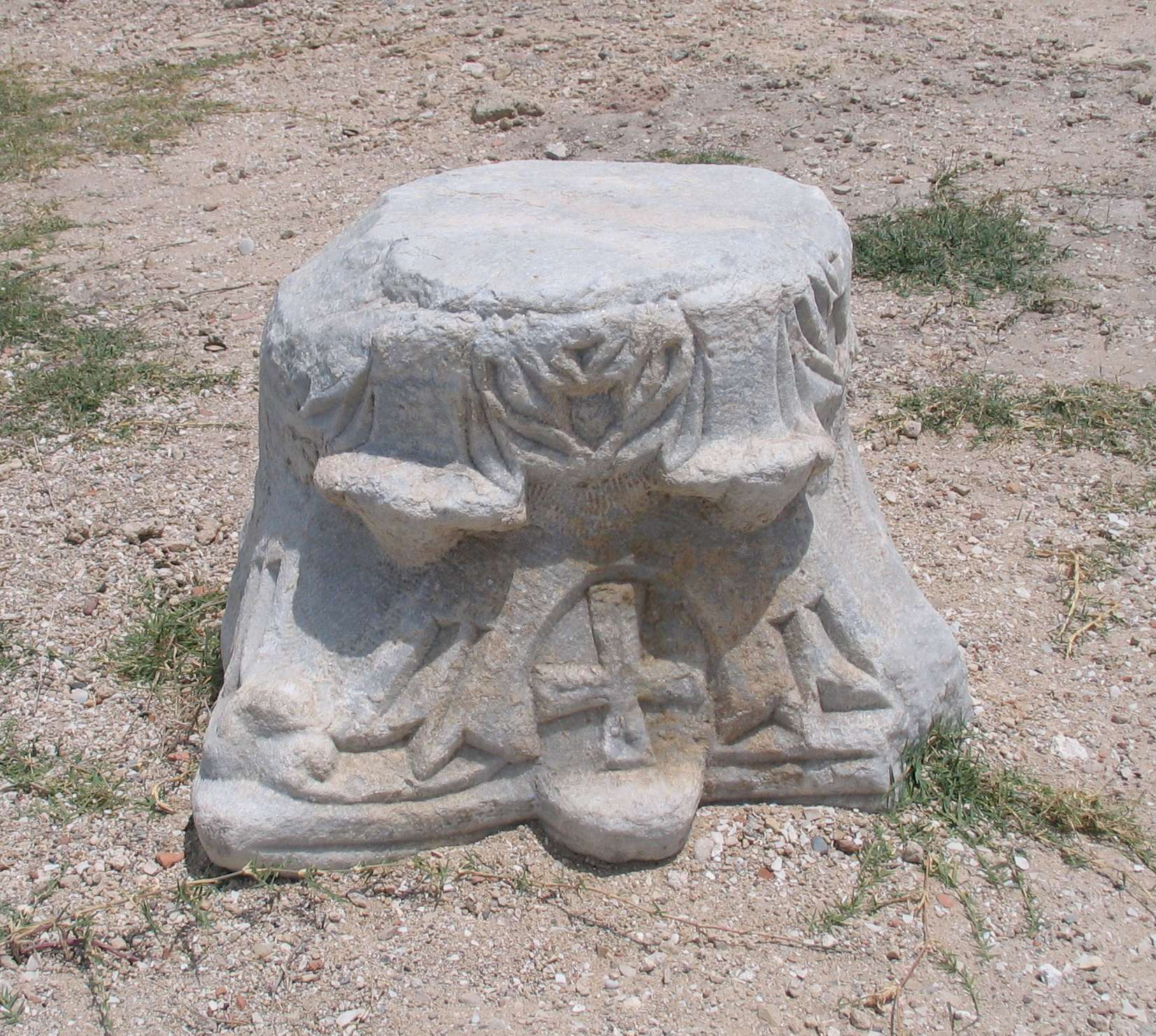 Caesarea national park, Israel.